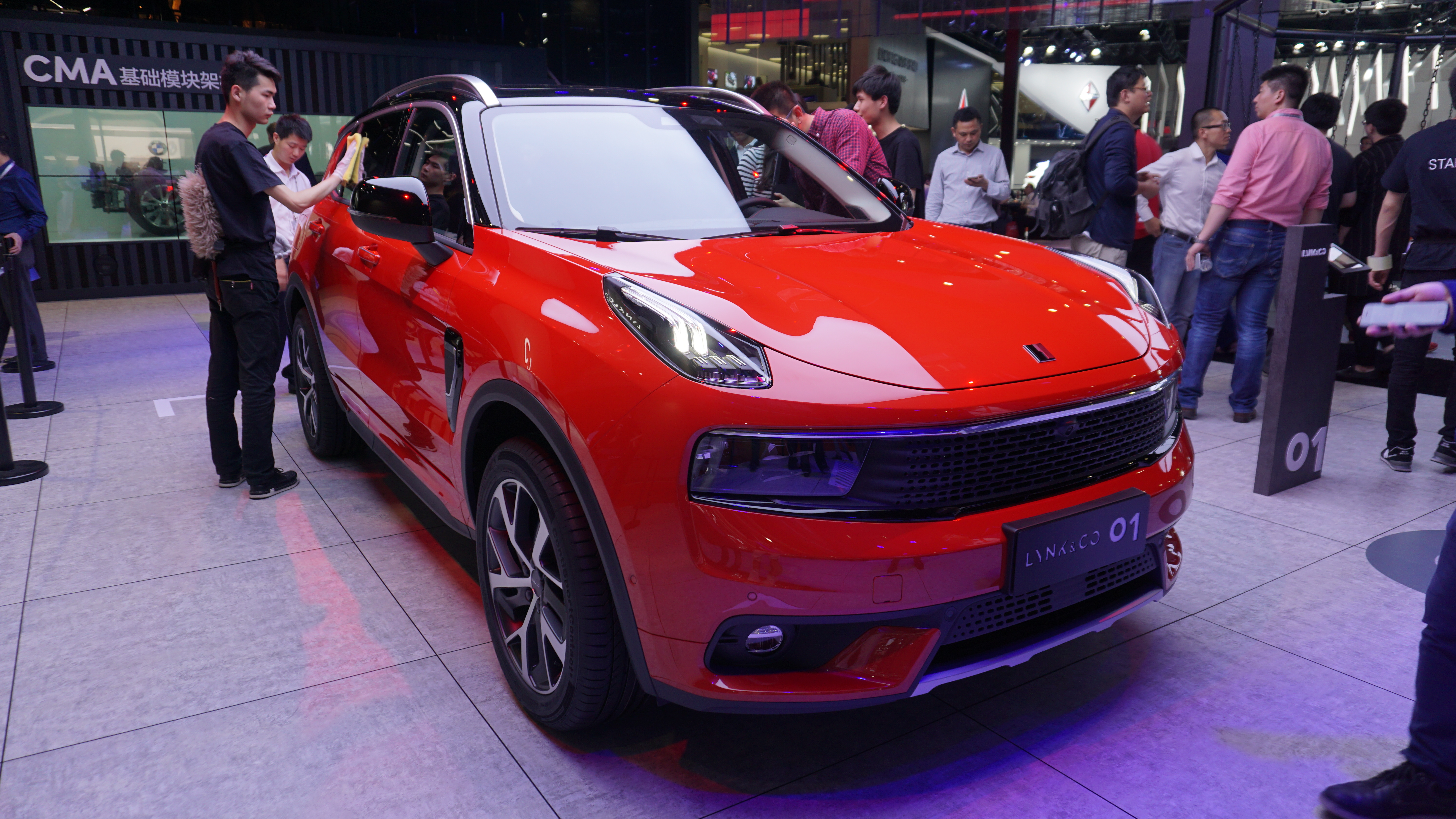 Front view of the Lynk & Co 01.